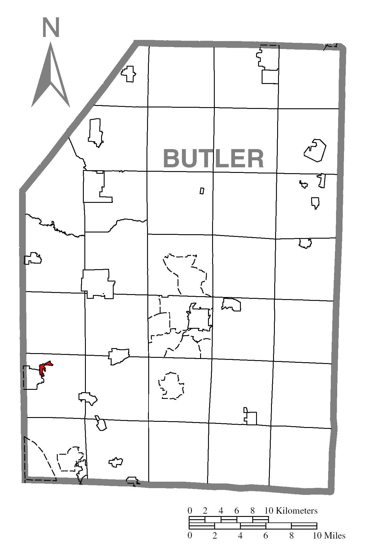 A map of Butler County showing Harmony, Pennsylvania (alternate) highlighted on the map.